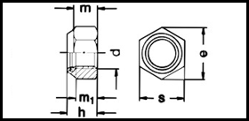 Steel nut DIN 982